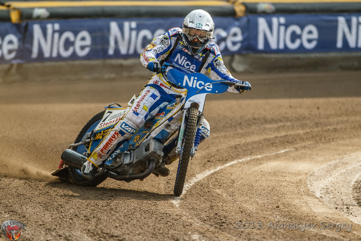 Fredrik Lindgren. 2nd final of Individual Speedway European Championship 2013. Togliatti, Russia